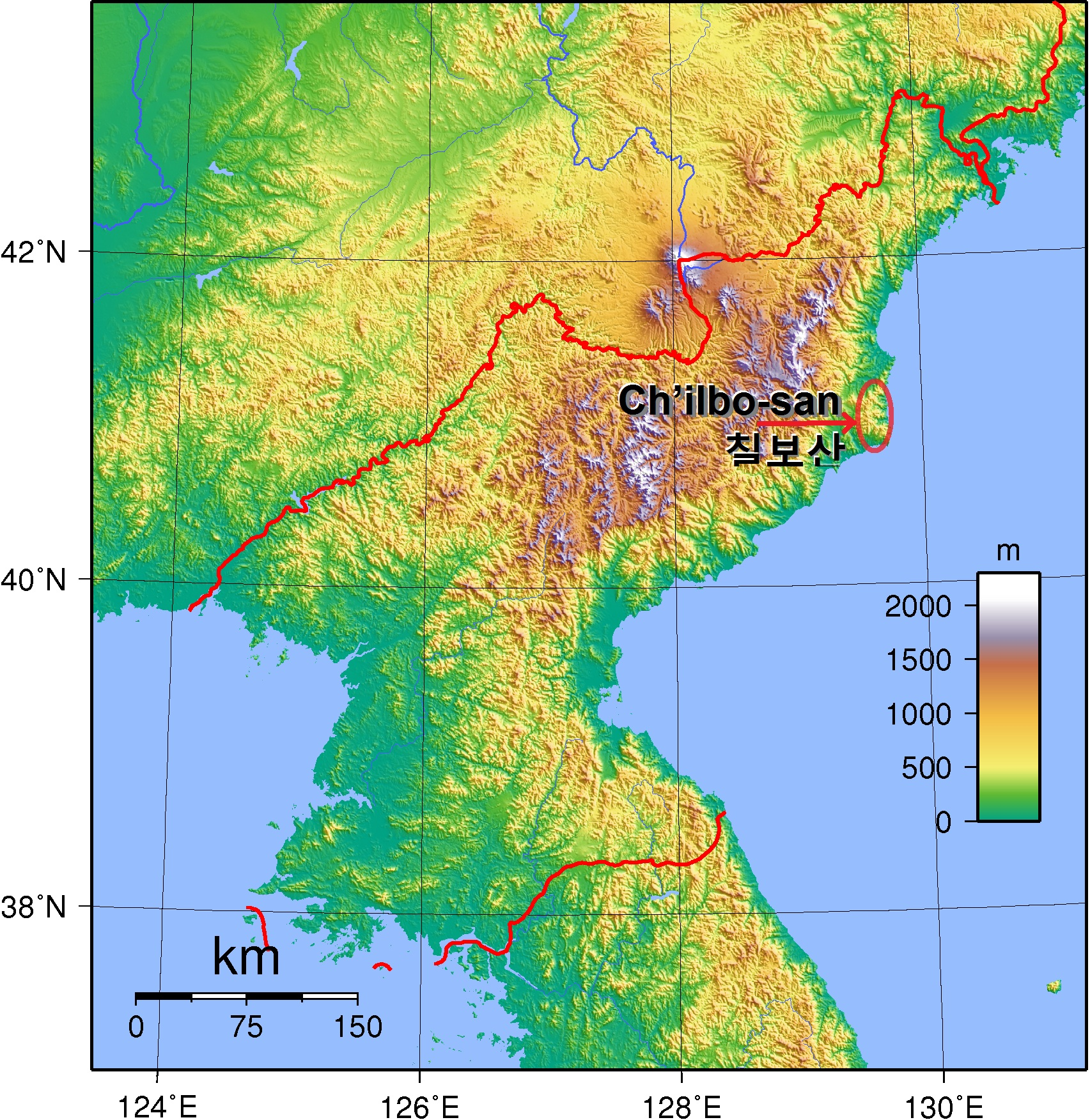 Topographic map of North Korea. Created with GMT from SRTM data.